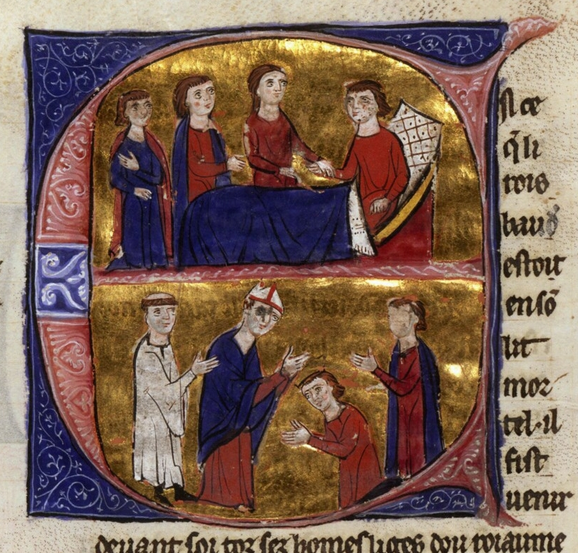 William of Tyre's Historia and Continuation, 13C manuscript from Acre. Bibliotheque Nationale Française, Richelieu Manuscrits Français 2628 Copyright-free, from Bibliotheque Nationale Française site Gallica (